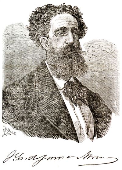 José Coelho da Gama e Abreu (1832-1906), a Brazilian historian and politician.